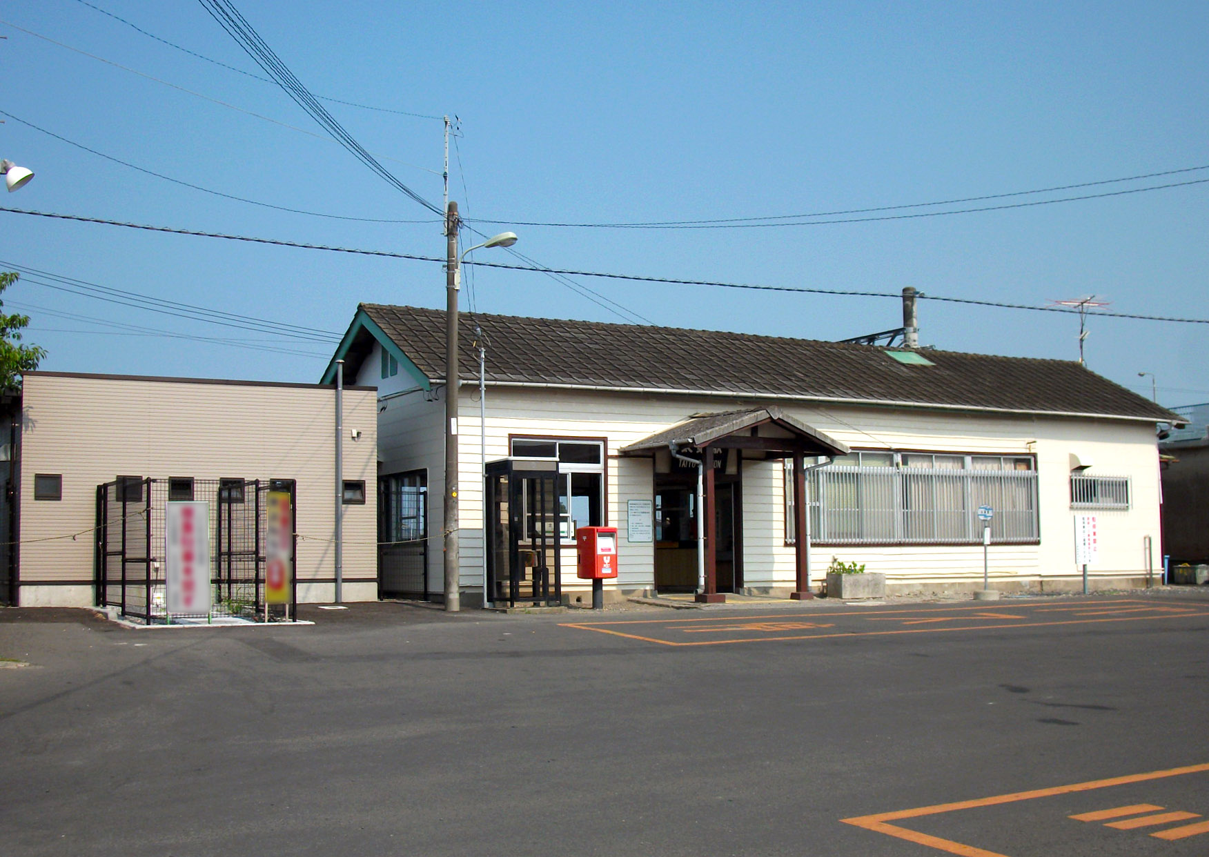 Taito Station